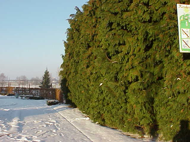 Species: Chamaecyparis lawsoniana Family: Cupressaceae Image No. 4